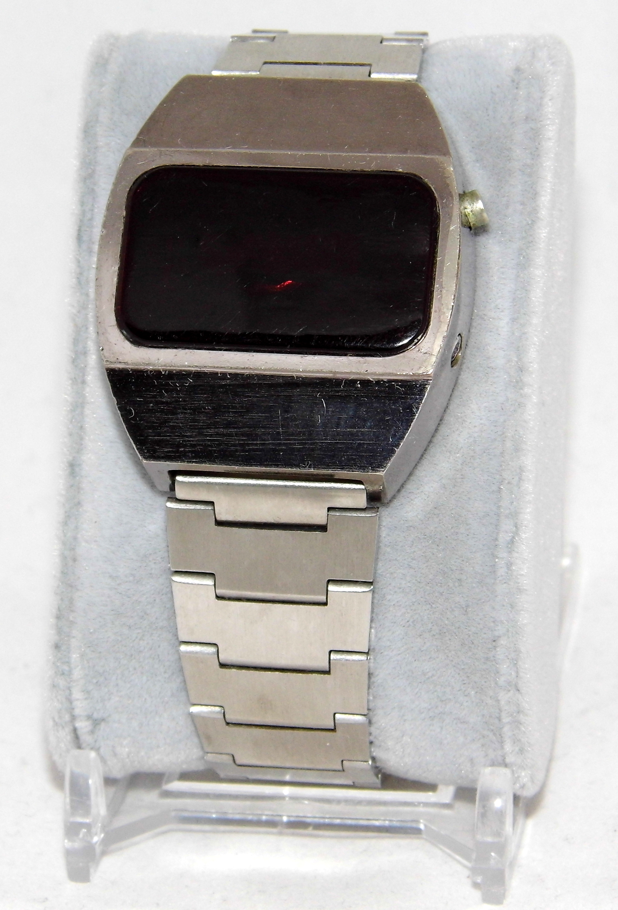 Vintage 1970s-Era Red LED Men's Wrist Watch, Rodania Watch Company Swiss-Made Case, USA National Semiconductor (NS) Module